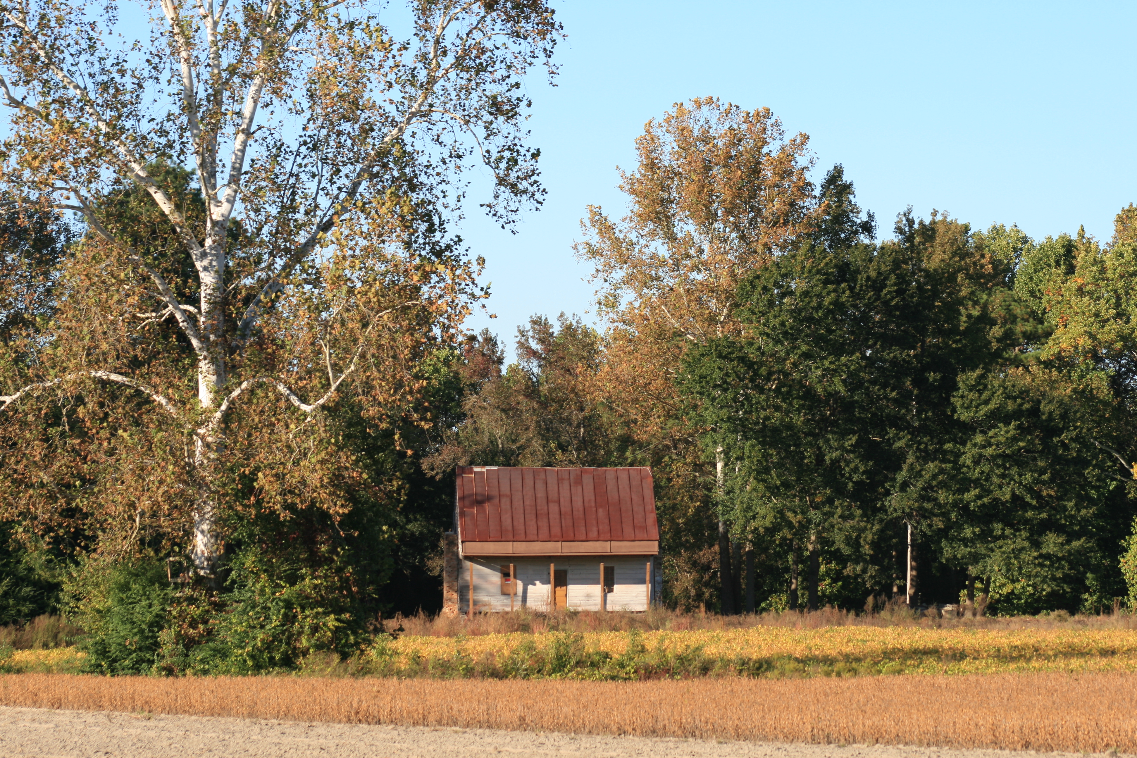 Carter-Simmons House, post-stabilization.View of north side, front of house. October 2010